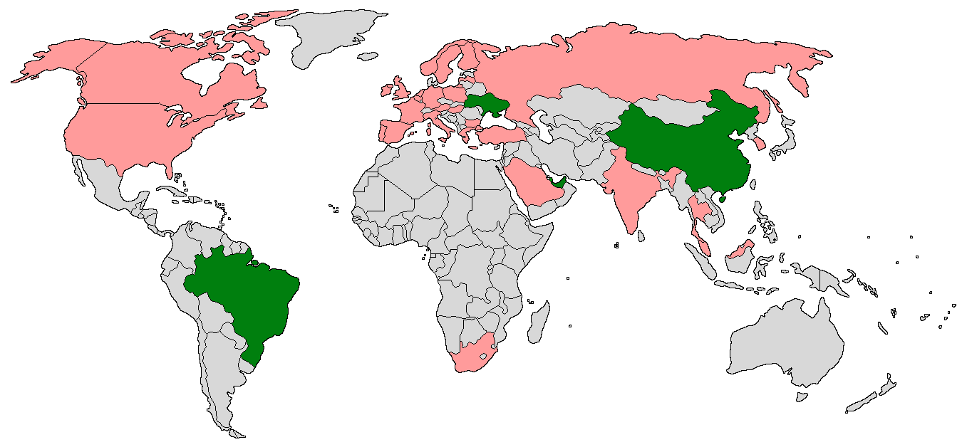 World map displaying the countries raced in by the Formula 1 Powerboat World Championship in its 2013 season in green. Former host nations shown in pink.